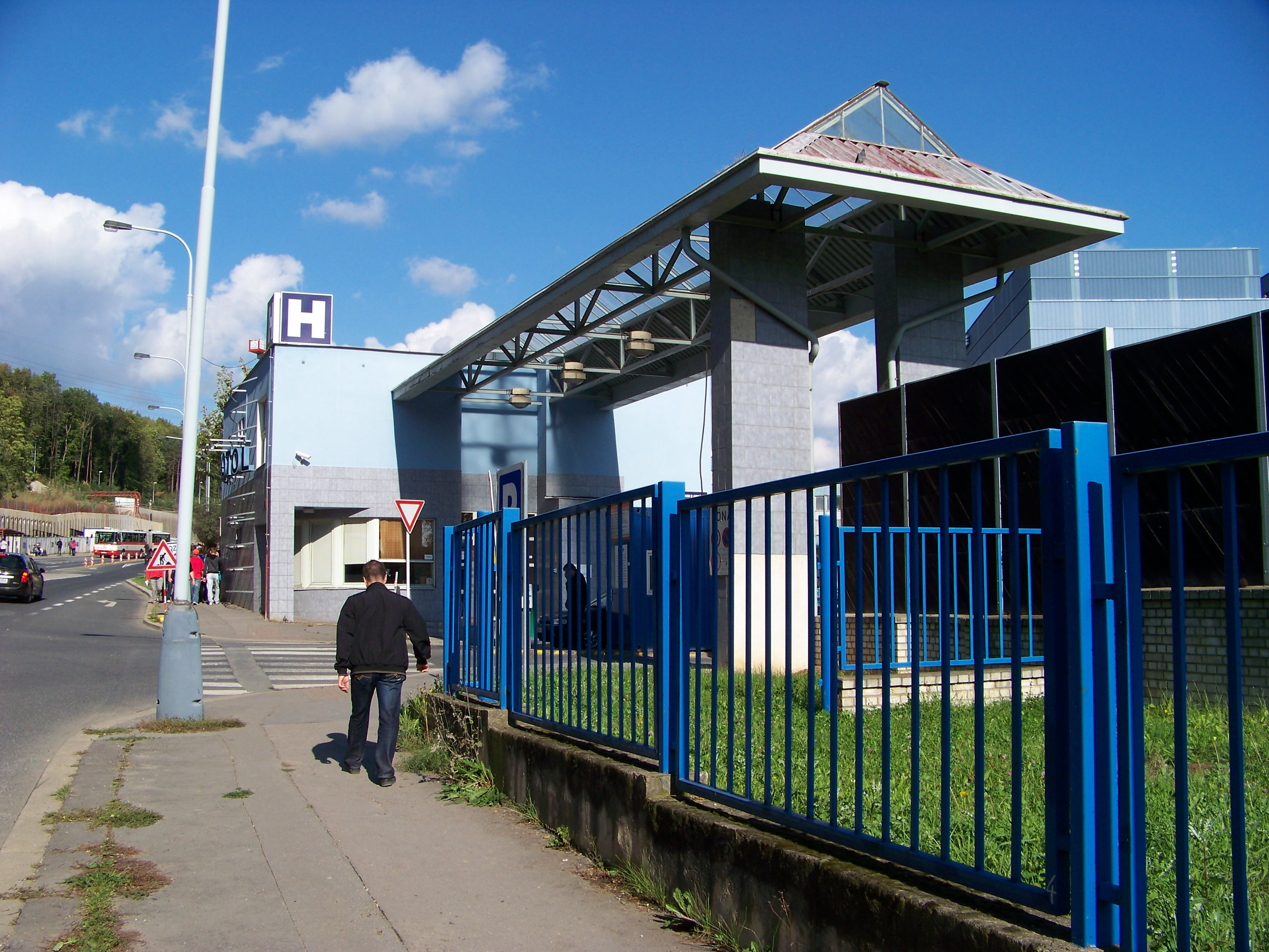 Prague-Motol, the Czech Republic. Kukulova street, a gate of the Motol Hospital.